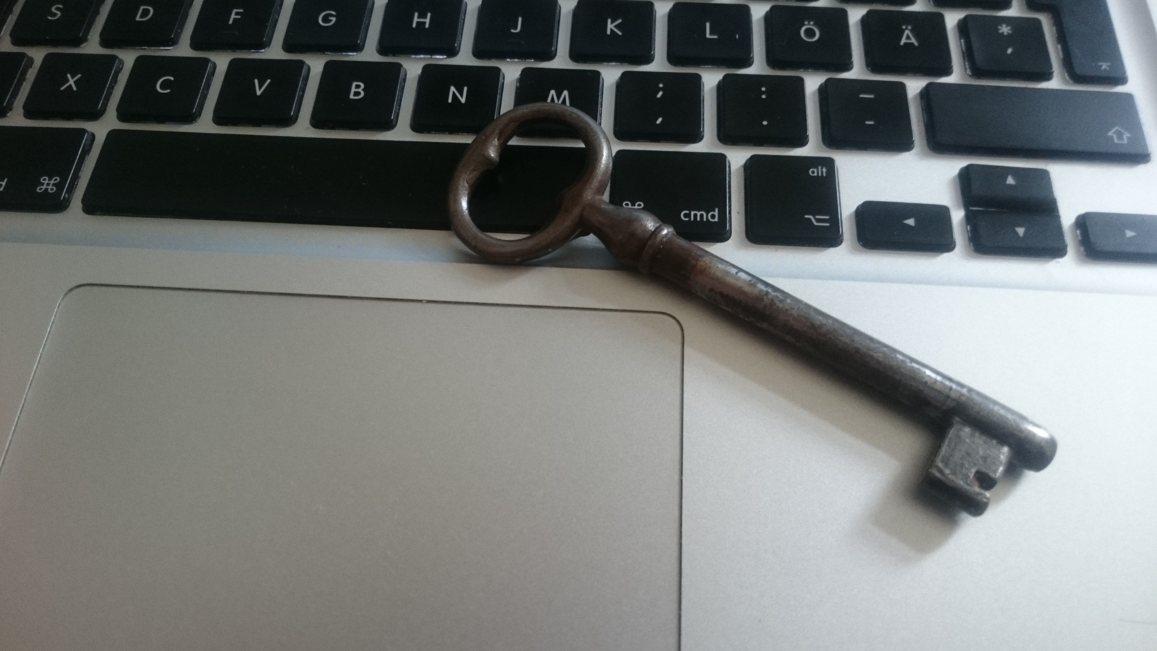 Security, hacker, GDPR, key, laptop, password, data protection, privacy